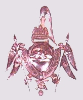 Coats of Arms of Rana dynasty (1846-1951), family of hereditary Prime Ministers under Royal Shah dynasty; founded by Jang Bahadur Kunwar Rana of the Khasa Kshatriya Kunwar Bharadar family